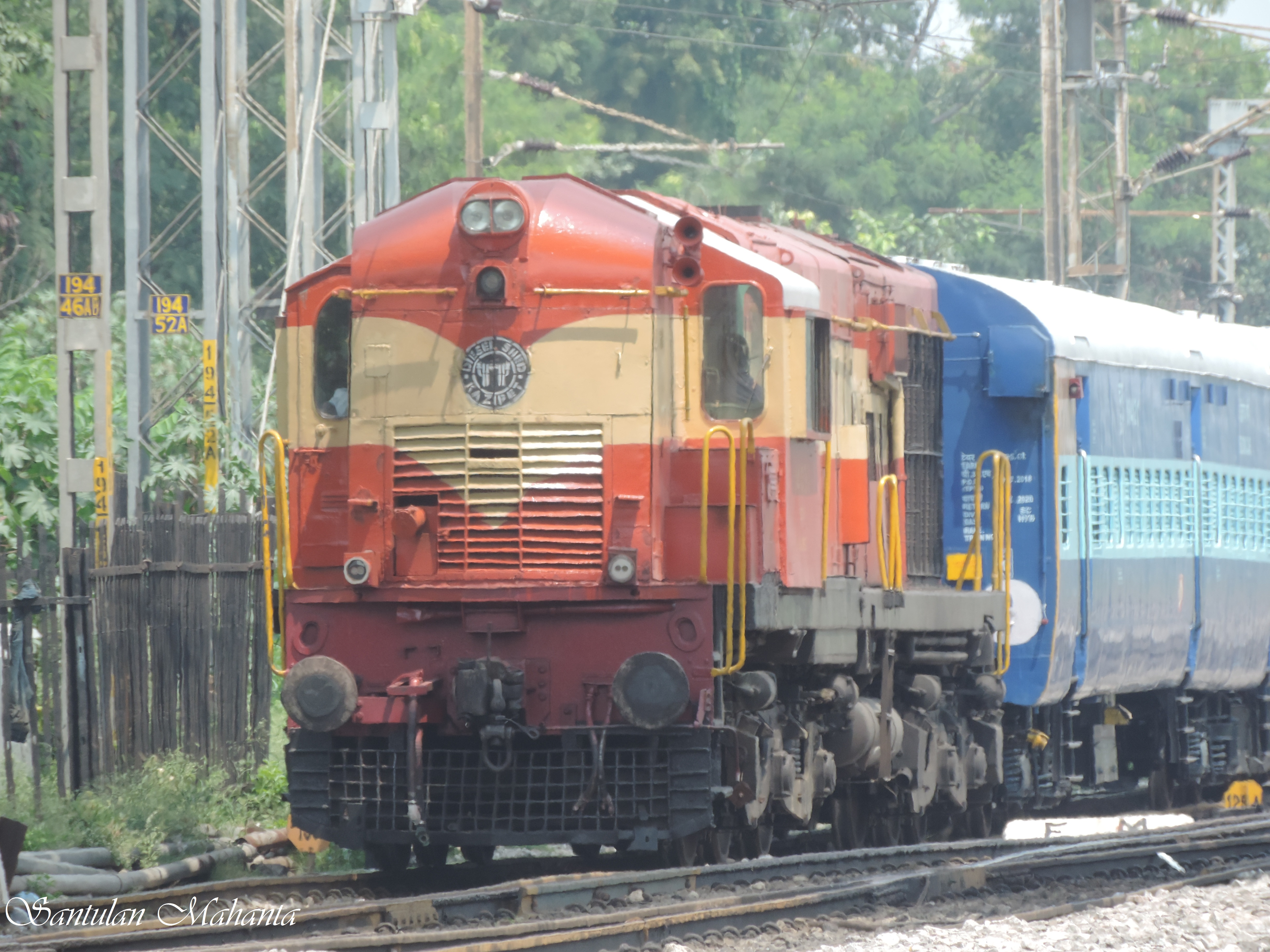 WDM3A 14031 of Kazipet is perhaps the last baldie surviving with Kazipet